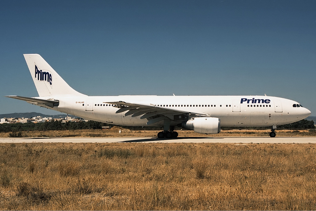 Prime Airlines Airbus A300